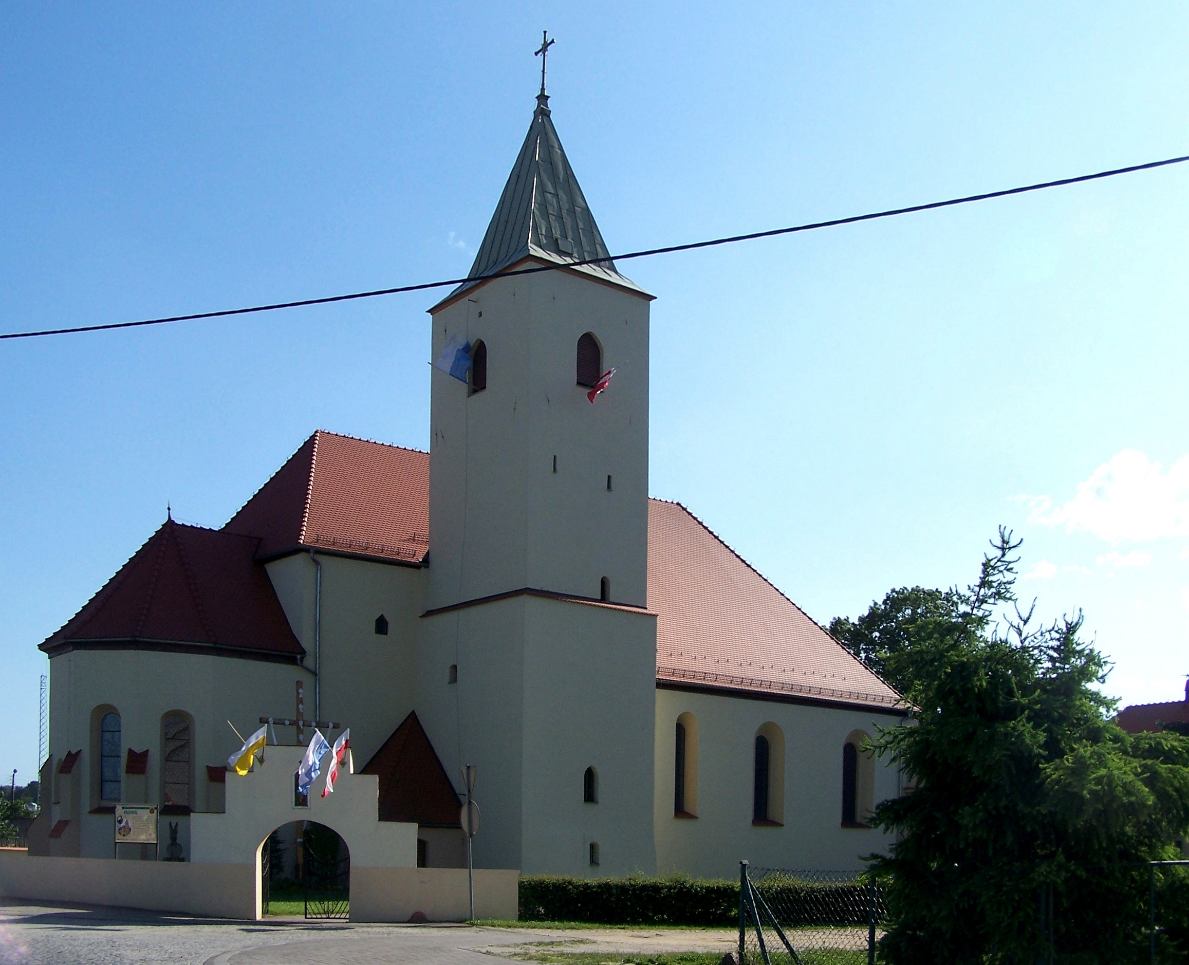 Immaculate Conception church in Przewóz, Poland